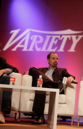 Jay Samit circa 2011